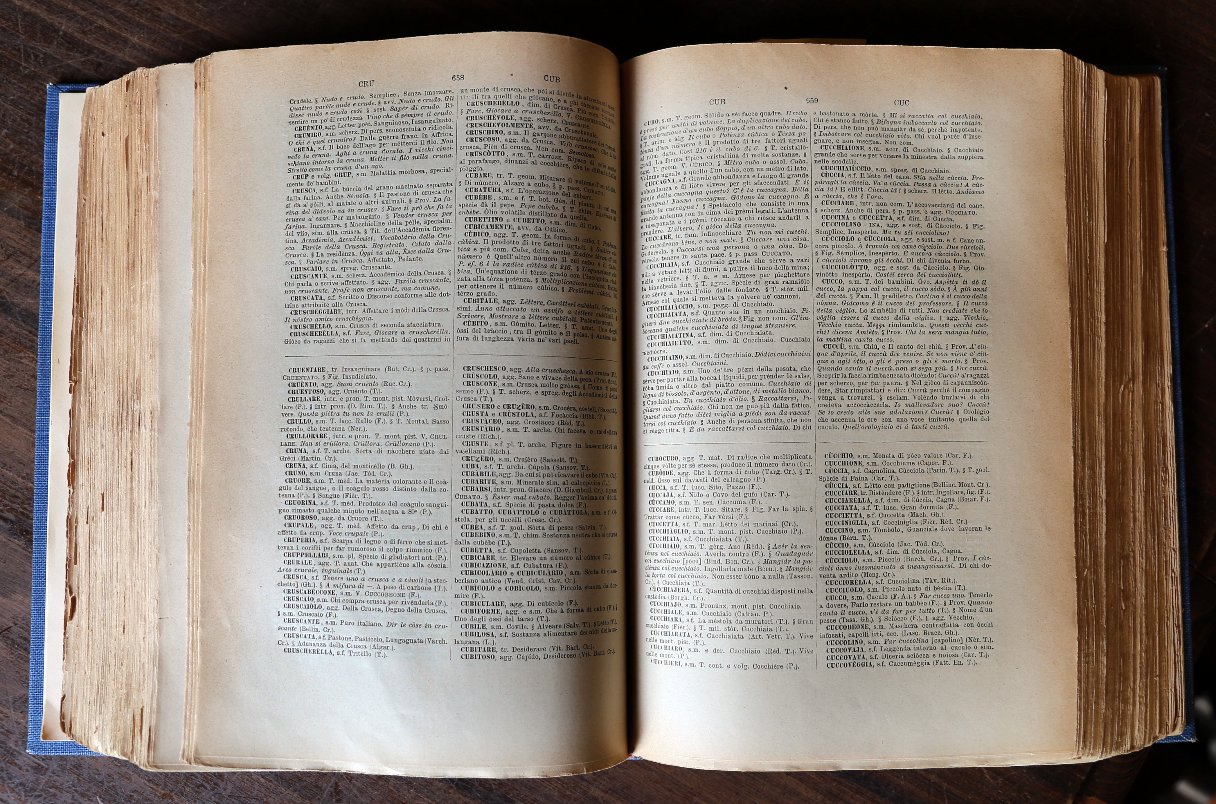 Accademia della Crusca Library